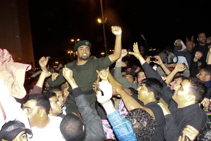 Police officer Ali al-Ghanmi carried over by protesters in Salmaniya hospital